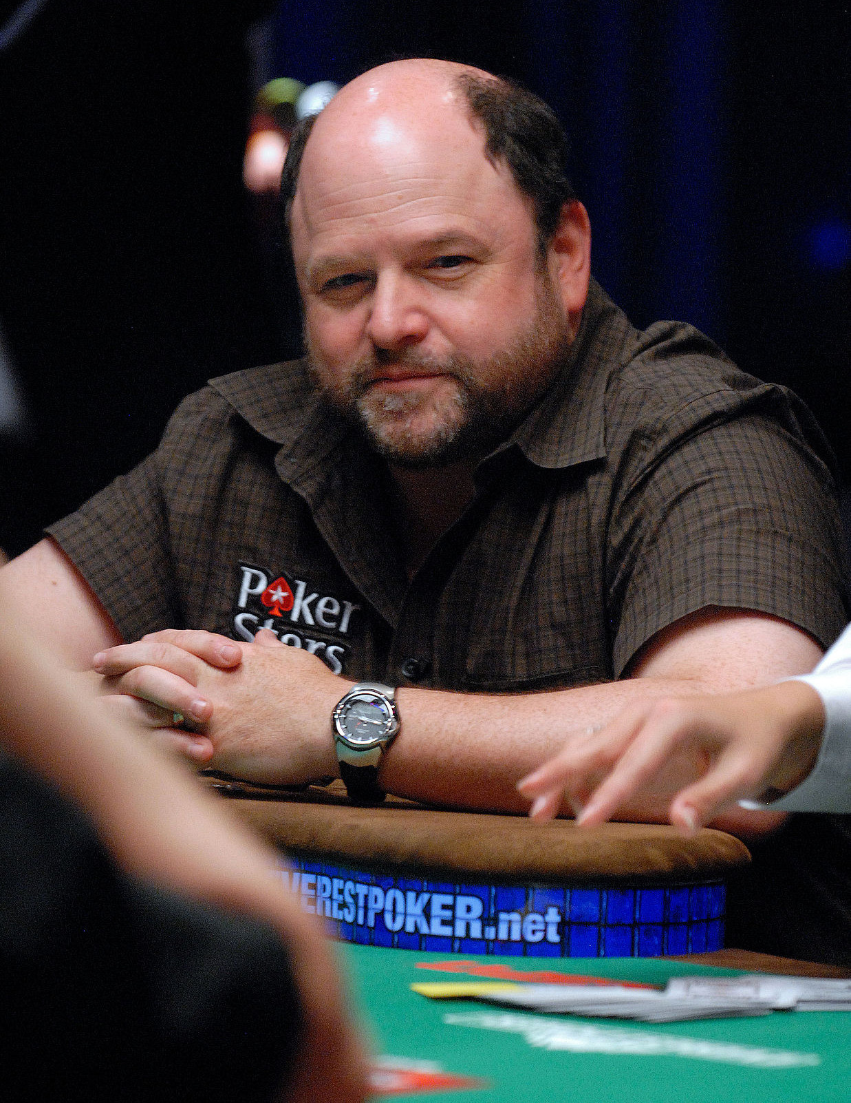 Jason Alexander plays Annie Duke's charity event at the 2009 WSOP